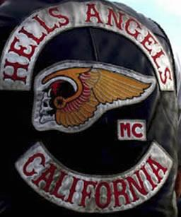 A Hells Angels jacket.